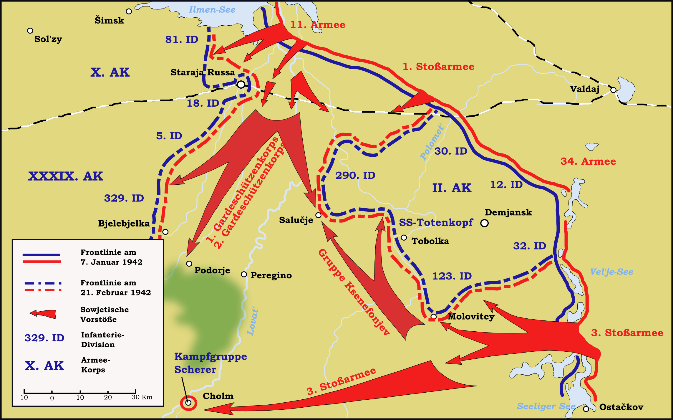 Map (in German language) showing the encirclement of Demyansk (February - April 1942) during the German-Soviet War 1941-1945.